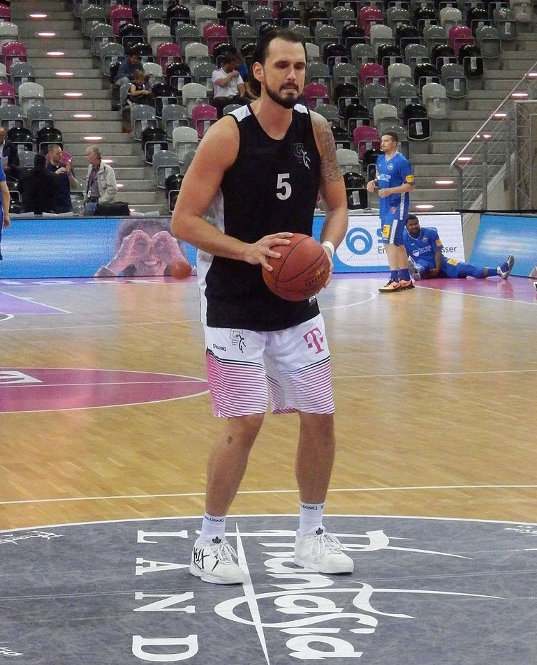 Dirk Madrich photograph taken during 2015 Beko BBL Season